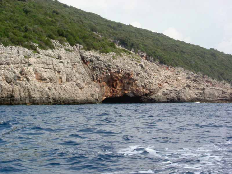 Western entrance to Plava špilja (Blue Grotto), Montenegro Photo by: Aleksandar Bogicevic